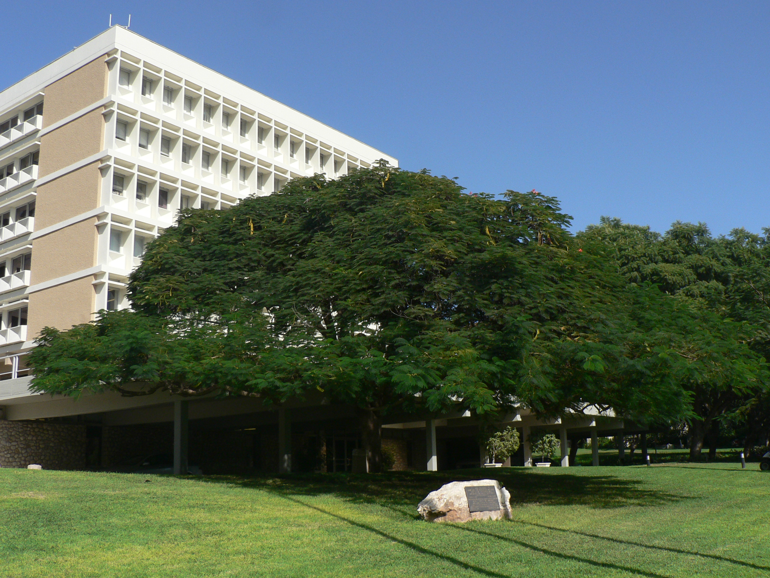 Weizmann Institute of Science, Israel: Stone Administration Building